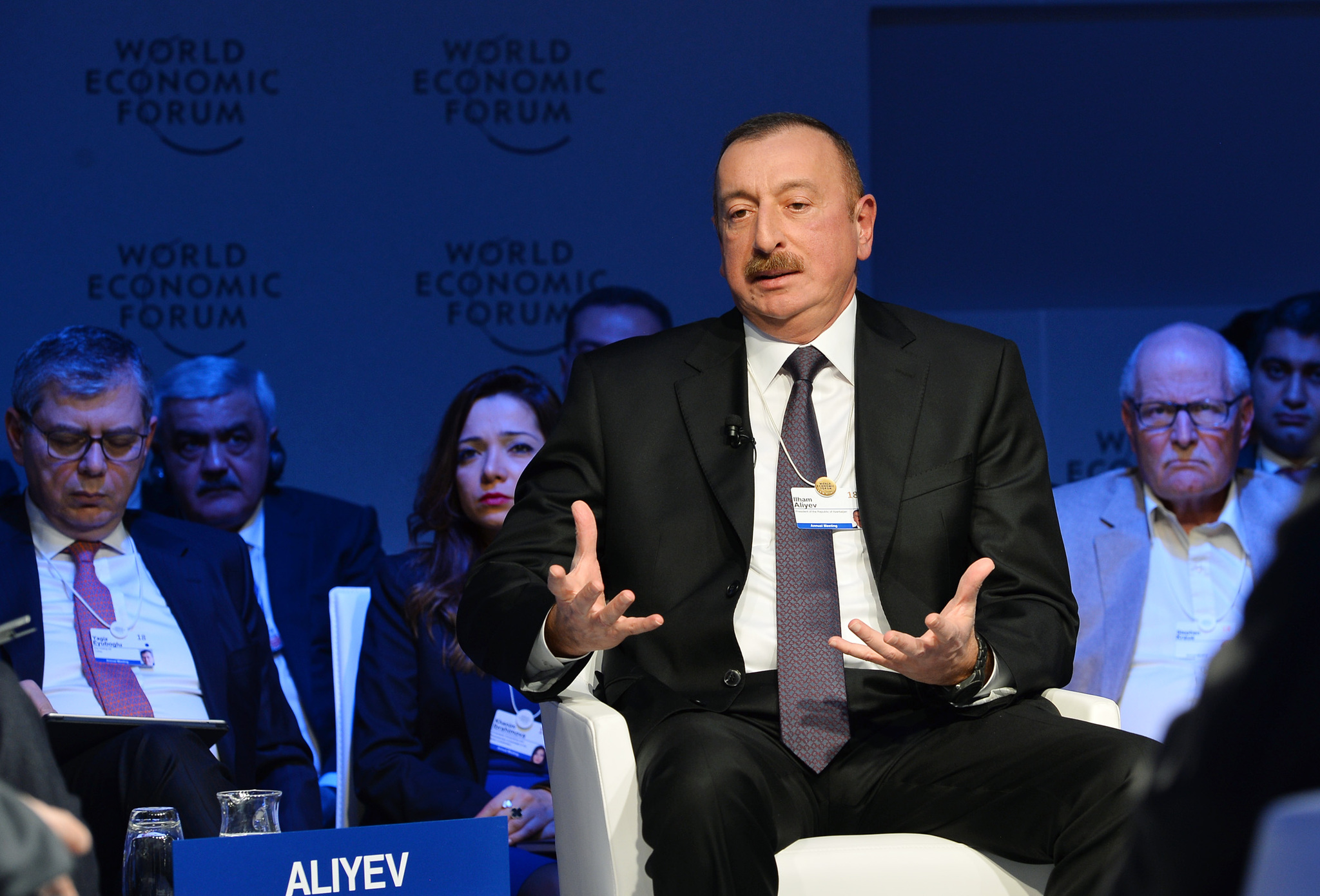 Ilham Aliyev discusses issues related to Azerbaijan